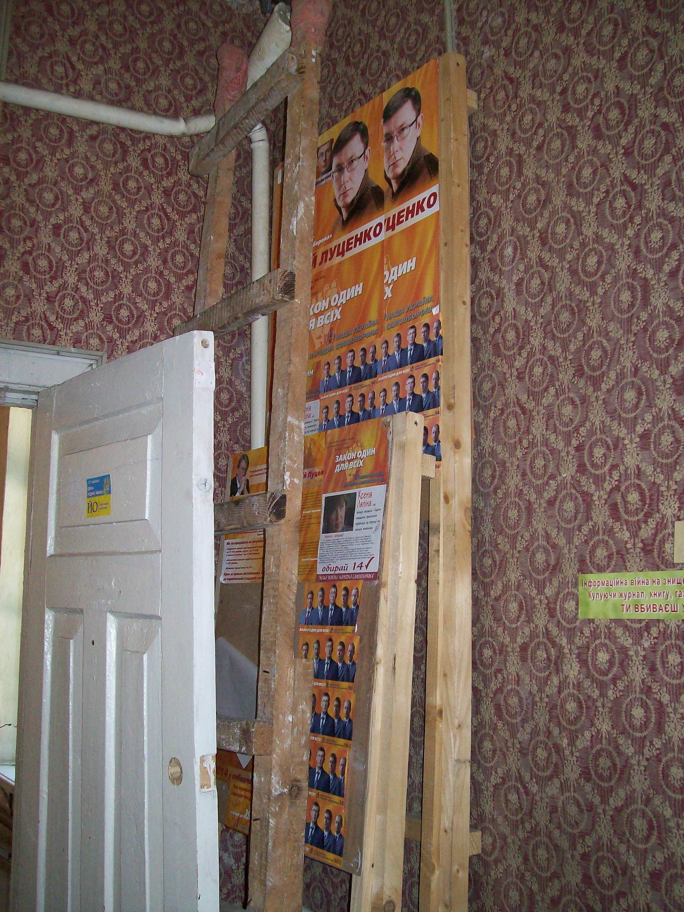 Our Ukraine–People's Self-Defense Bloc campaign material in Bila Tserkva (Augustus 2007)